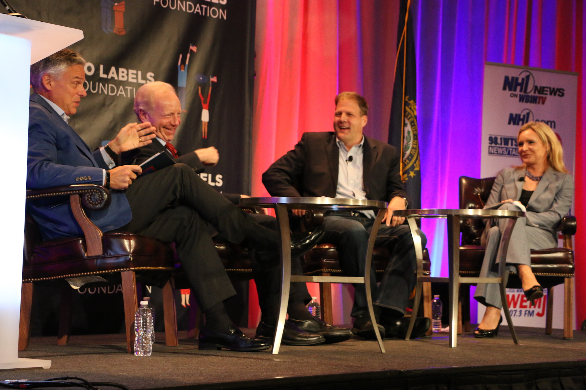 On October 6, The No Labels Foundation hosted the New Hampshire Governor's Forum, featuring Democratic candidate Colin Van Ostern and Republican candidate Chris Sununu. The two candidates engaged in a substantive discussion with over 500 New Hampshire voters, steered by No Labels Co-Chairs Gov. Jon Huntsman and Sen. Joe Lieberman.